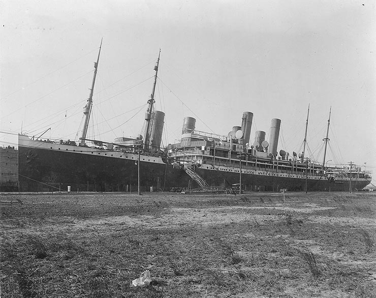 SS Prinz Eitel Friedrich (German passenger liner, 1904), interned at the Philadelphia Navy Yard, Pennsylvania, on 28 March 1917. Behind her is the liner SS Kronprinz Wilhelm. These ships were seized when the United States entered World War I and subsequently served as USS DeKalb (ID # 3010) and Von Steuben (ID # 3017).